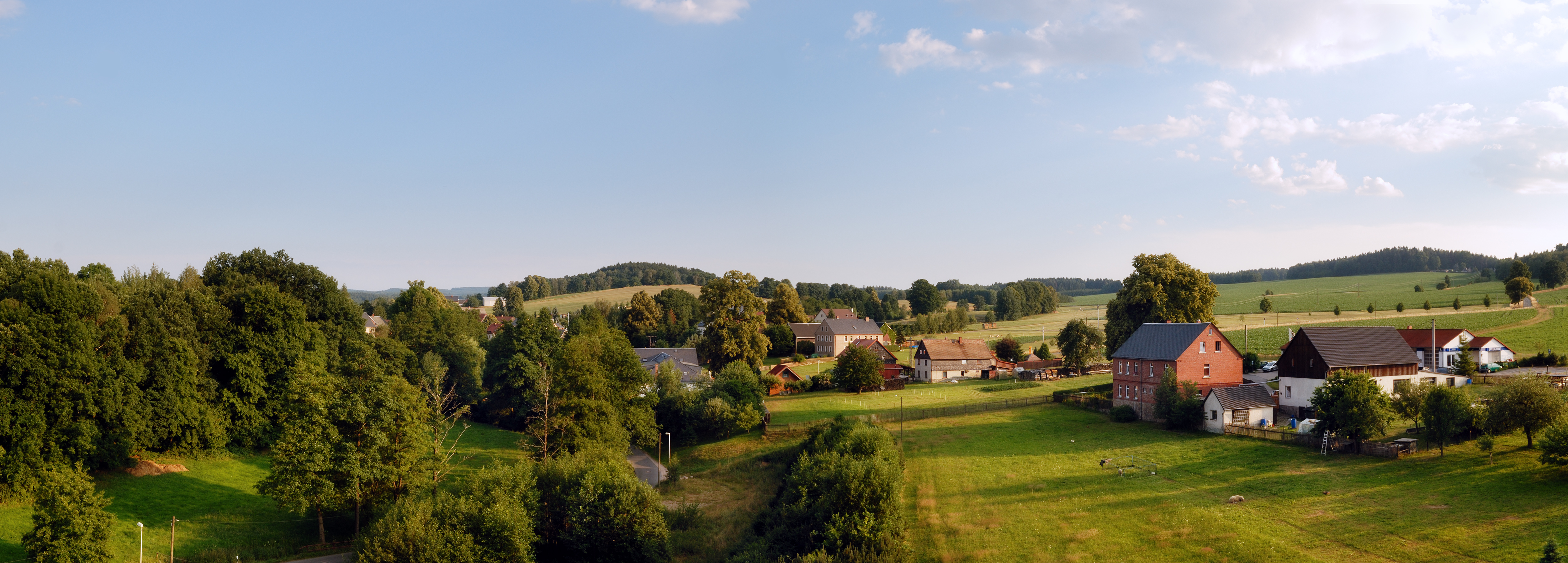 This image shows the district Wolfersgrün of the town Kirchberg in Saxony, Germany. It is a two segment panoramic image.